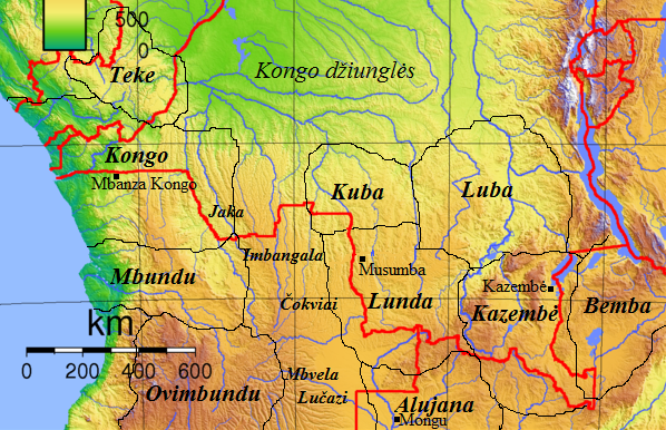 Topographic map of Congo (Kinshasa). Created with GMT from GLOBE data.